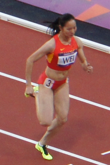 Wei Yongli competing at the 2012 Summer Olympics